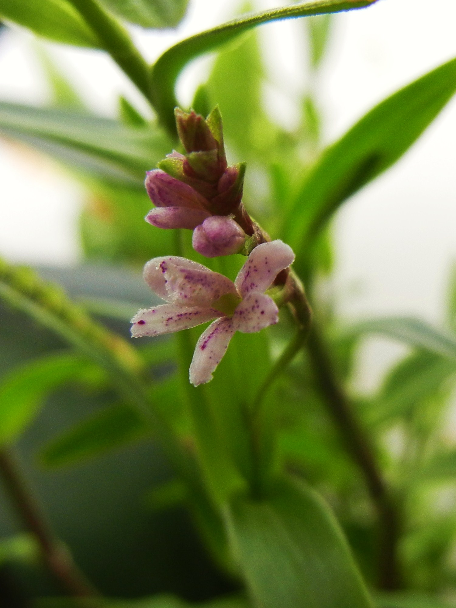 Epidendrum fimbriatum. I got this from Ecuagenera in February. A nice bushy plant, with multiple active spikes. Each flower is roughly half the size of my little fingernail. This is the pink form.